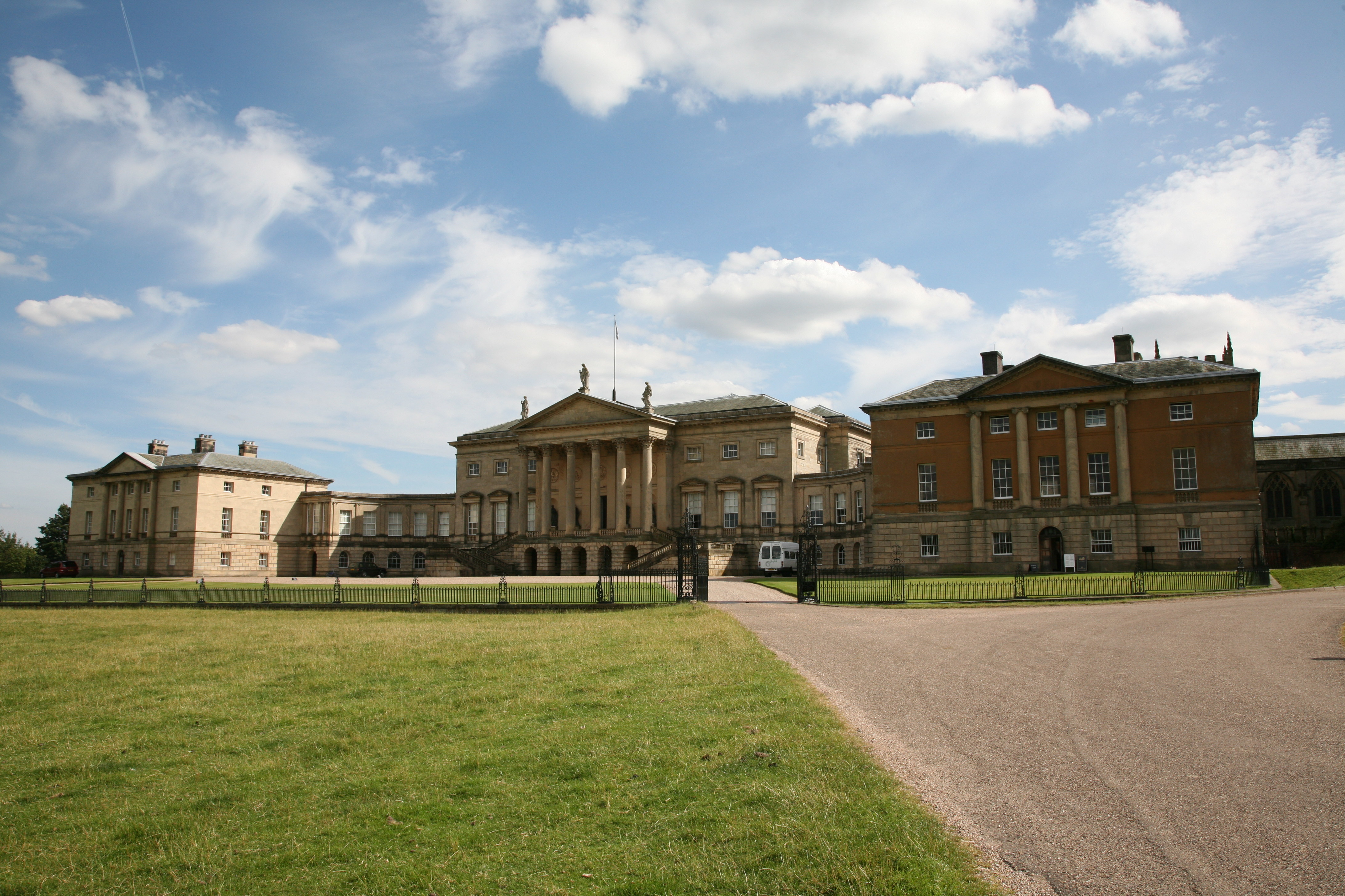 Kedleston Hall in Derbyshire. The house designed by James Paine, Matthew Brettingham and finished by Robert Adam. The Palladian north front.